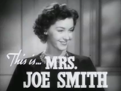 Marsha Hunt in "Joe Smith, American", by Richard Thorpe (1942)